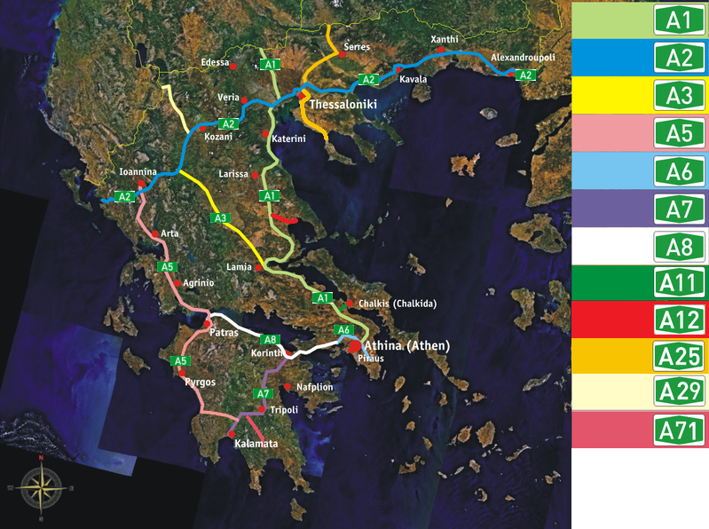 Courses or tracks of Greek Motorways (avtokinetodromos, avtokinetodromoi) on Greek mainland (A1-A9).